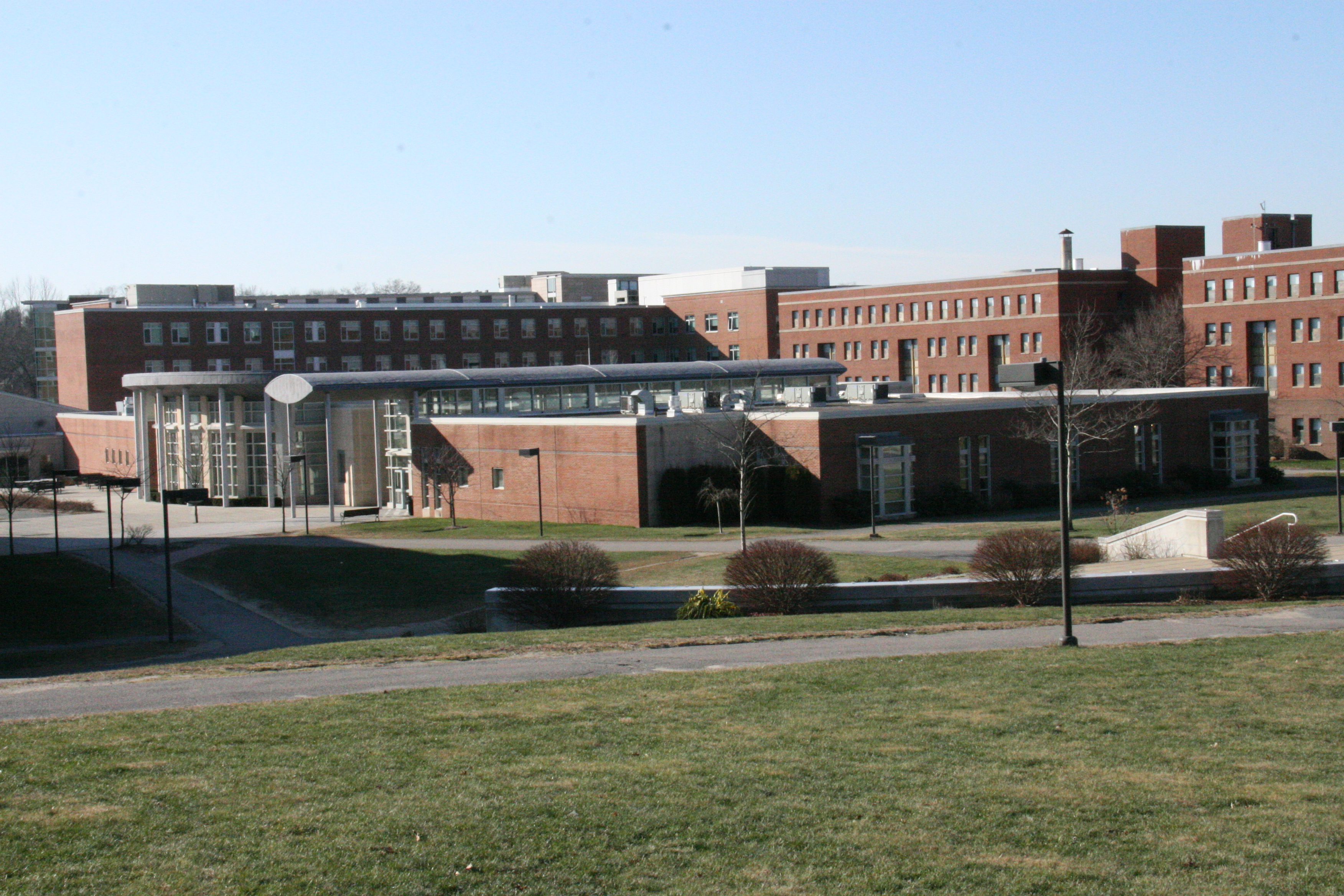 Bridgewater University 125 Burrill Ave.Bridgewater Ma.